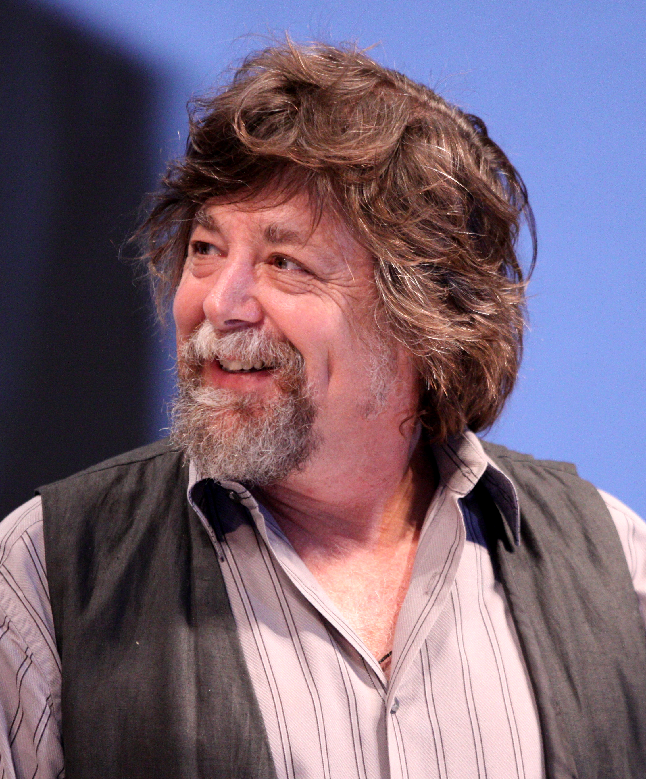 Steven Lisberger at the 2010 Comic Con in San Diego